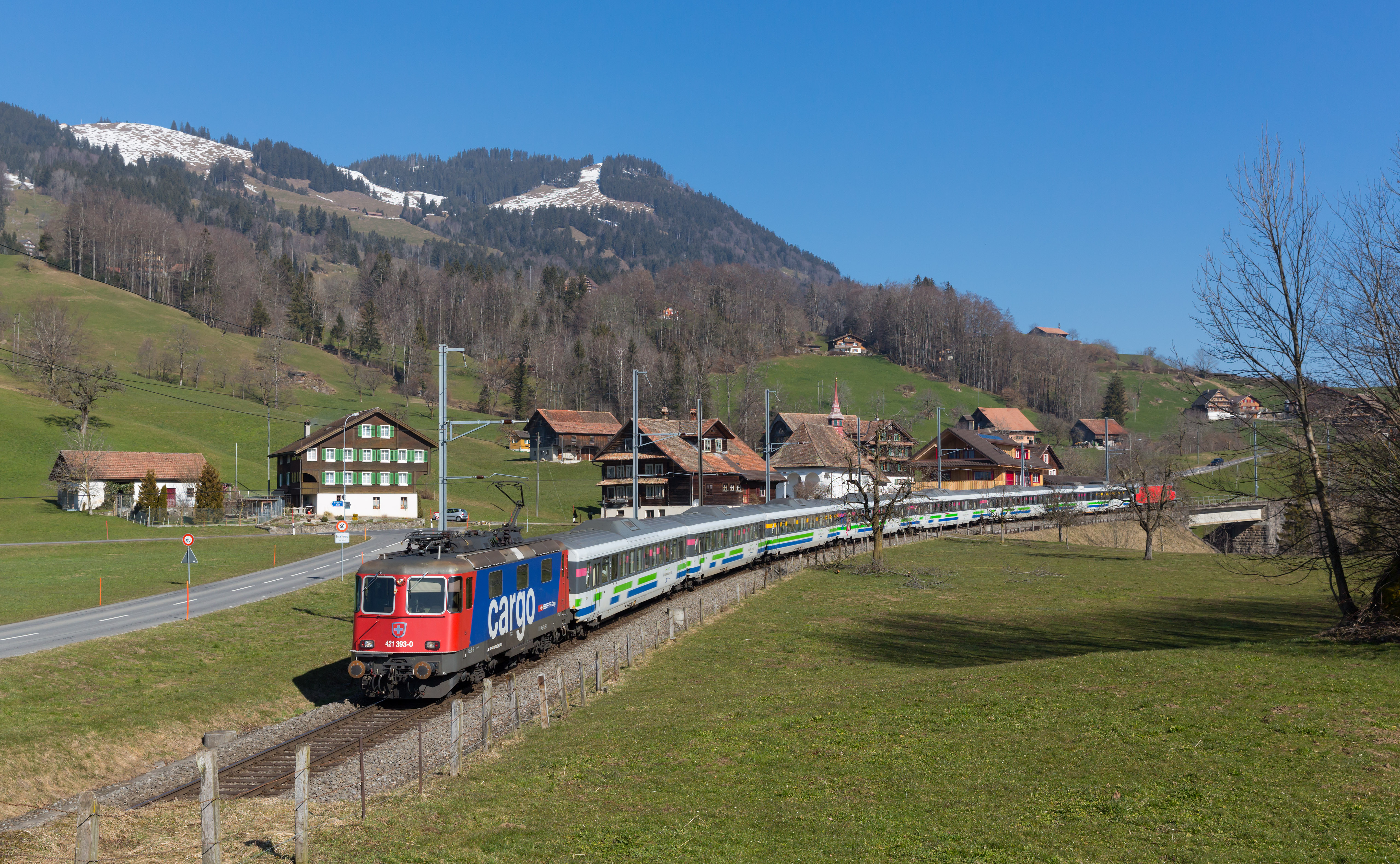 Voralpenexpress service operated by Südostbahn on its way from St. Gallen to Lucerne, taken near Ecce Homo, Switzerland. The train consists of a rented Re 421 (replacing a broken Re 446), six Revvivo coaches, an NPZ control car and a Re 446.